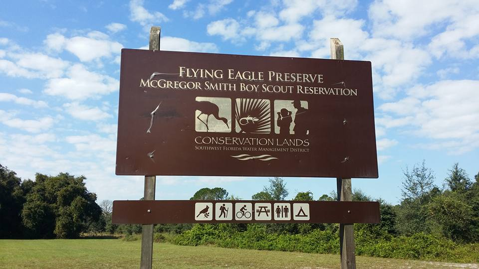 Sign at the now closed McGregor Smith Scout Reservation on land now managed by the Southwest Florida Water Management District.